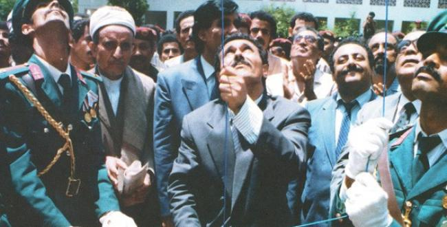 This picture was taken on May 22, 1990, during the establishment of Yemen. That's when, the area of the People's Democratic Republic of Yemen (also known as South Yemen) was united with the Yemen Arab Republic (also known as North Yemen), forming the Republic of Yemen (known as simply Yemen).